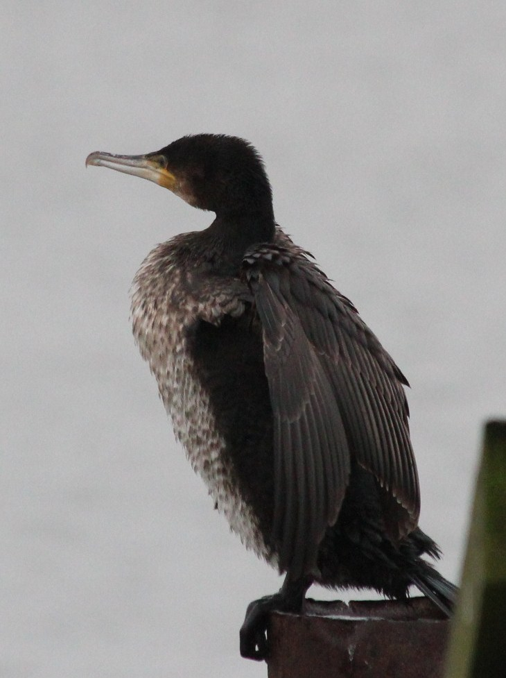 Great cormant in Gothenburg, Sweden.